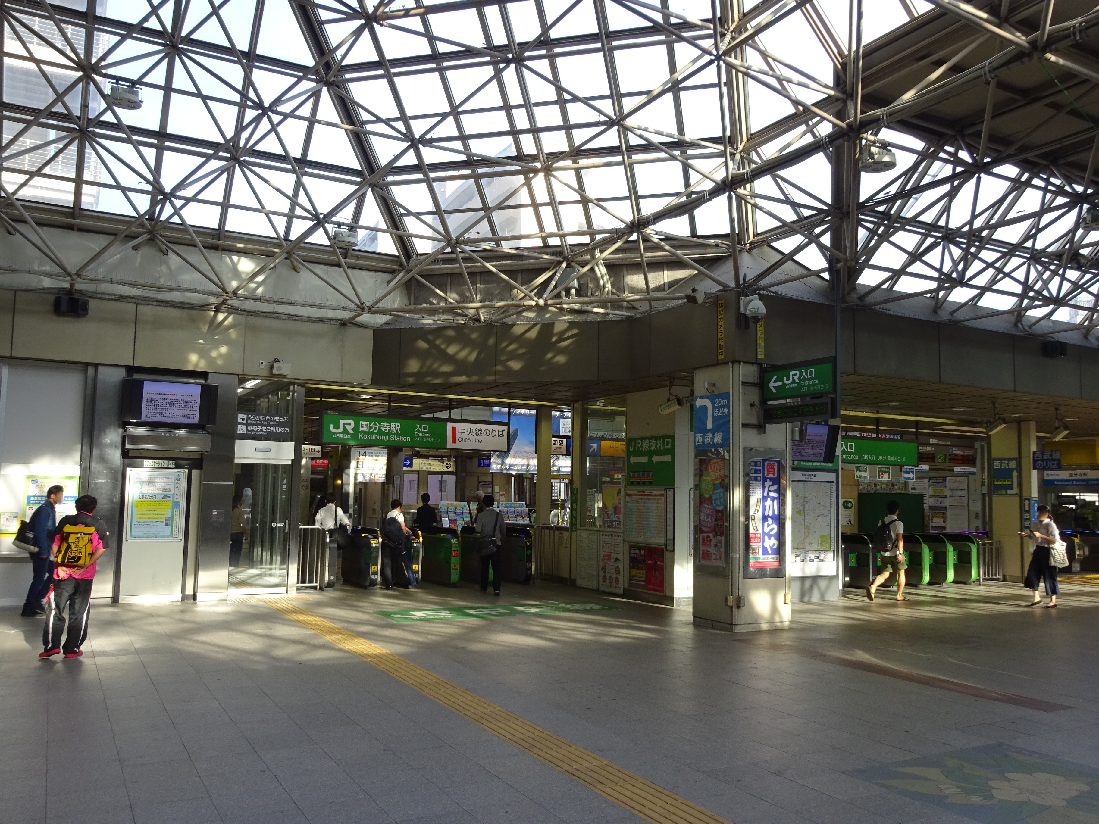 The JR East ticket barriers at Kokubunji Station in Tokyo